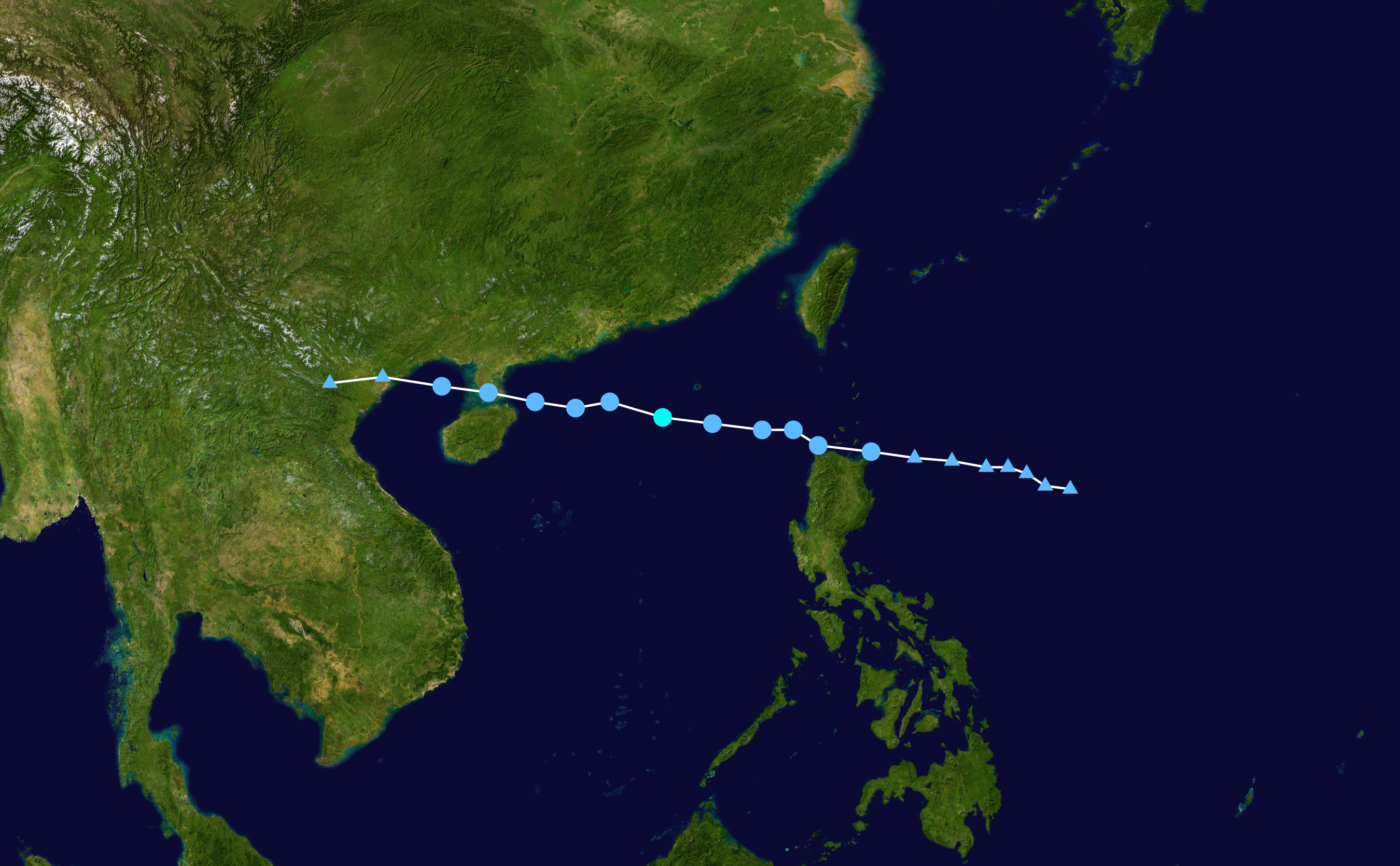 Track map of Tropical Storm Soudelor of the 2009 Pacific typhoon season. The points show the location of the storm at 6-hour intervals. The colour represents the storm's maximum sustained wind speeds as classified in the Saffir–Simpson scale (see below), and the shape of the data points represent the nature of the storm, according to the legend below. Saffir–Simpson scale Tropical depression≤38 mph≤62 km/h Category 3111–129 mph178–208 km/h Tropical storm39–73 mph63–118 km/h Category 4130–156 mph209–251 km/h Category 174–95 mph119–153 km/h Category 5≥157 mph≥252 km/h Category 296–110 mph154–177 km/h Unknown Storm type Tropical cyclone Subtropical cyclone Extratropical cyclone / Remnant low / Tropical disturbance / Monsoon depression